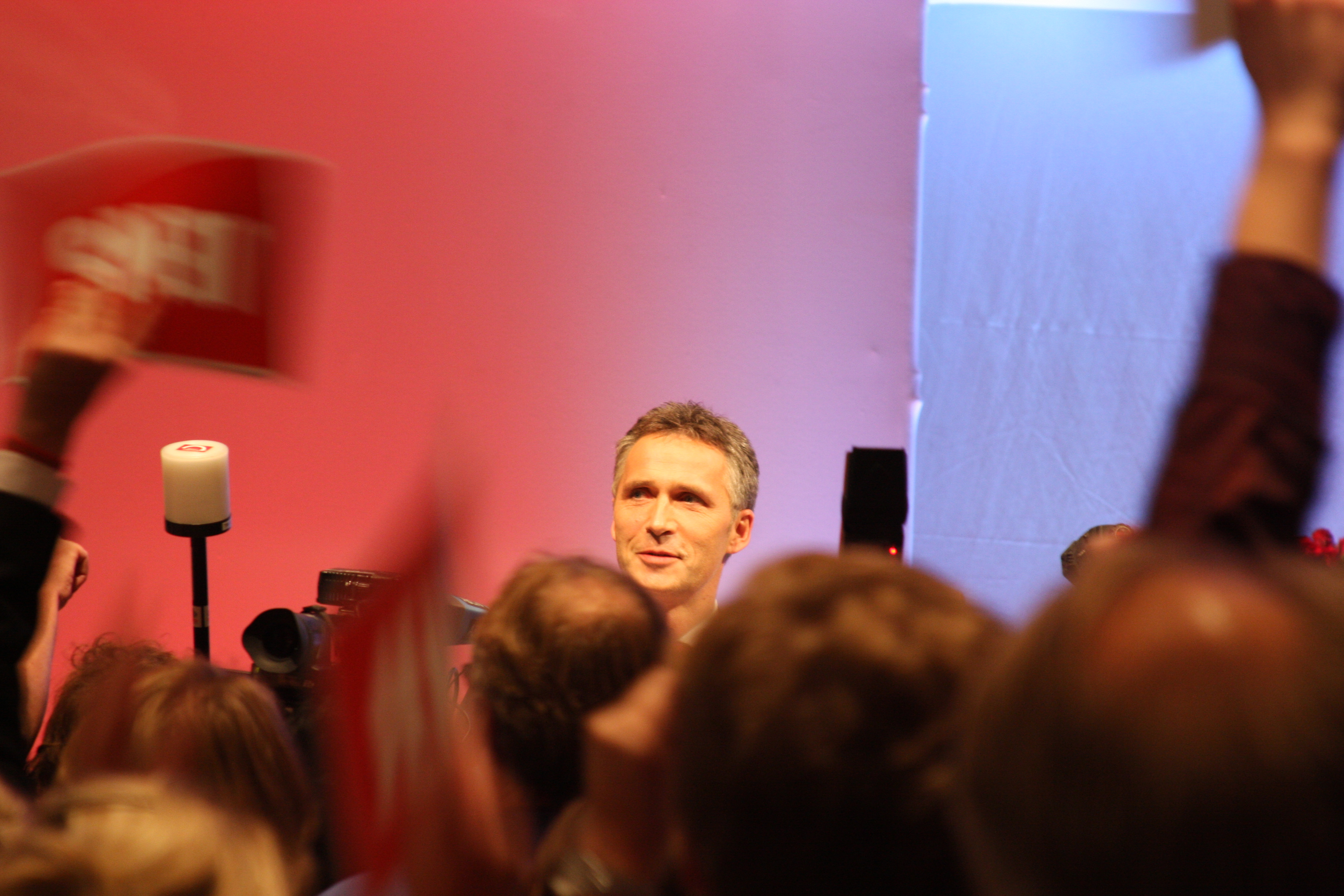 PM Jens Stoltenberg celebrated as election victor, Oslo, Norway 14 sept 2009